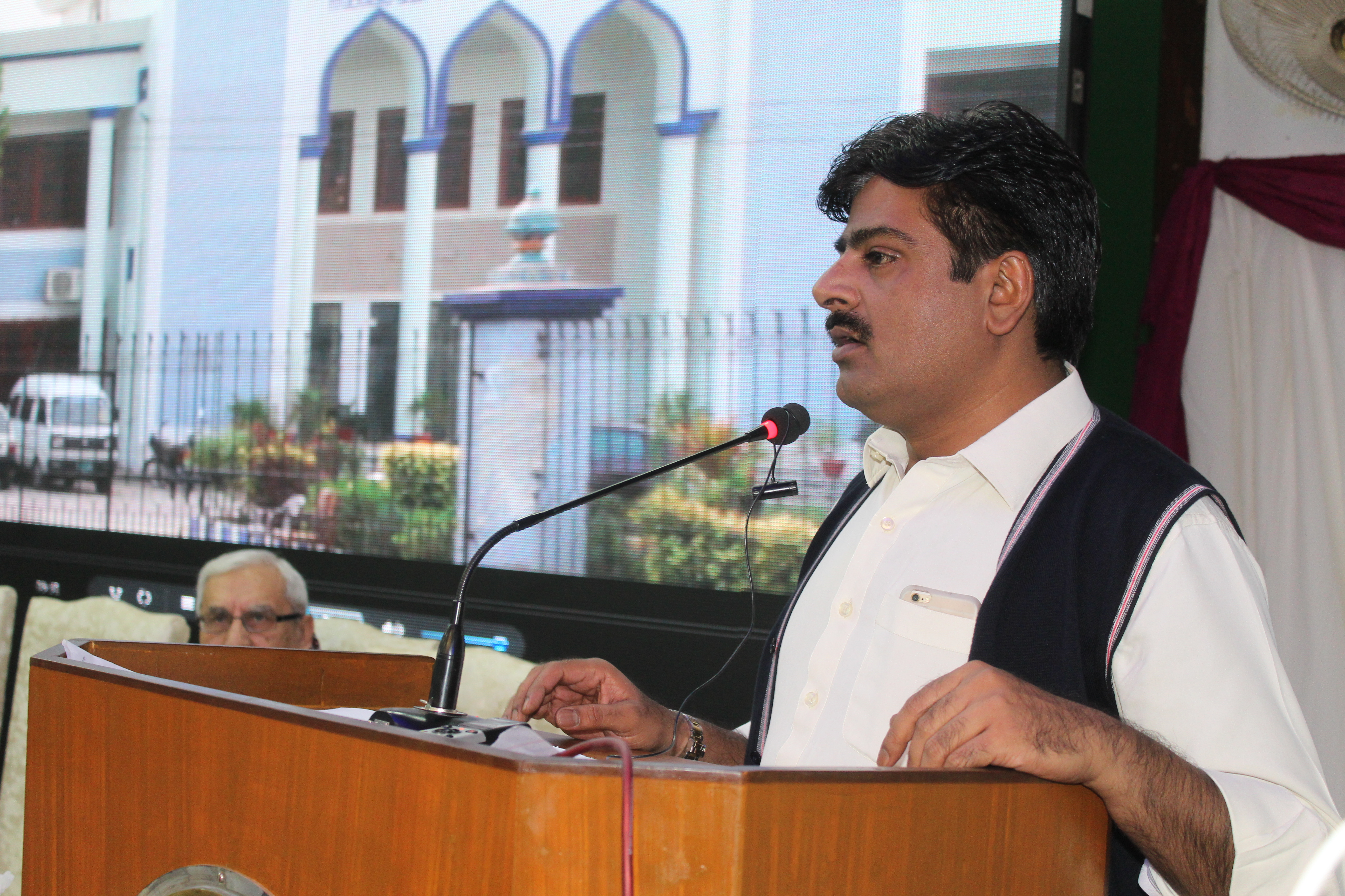 Syed Sardar Ali Shah addressing on International Mother Language Day 21 February 2017 in Sindhi Language Authority.